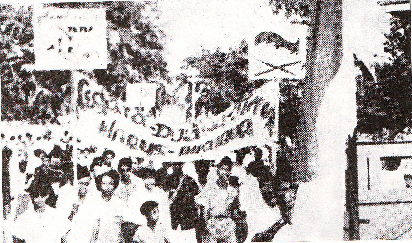 People protest in East Java against Negara Jawa Timur and supporting the integration to Indonesia, 15 August 1950